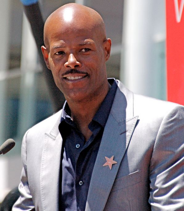 Keenen Ivory Wayans (an American actor, comedian and filmmaker) at a ceremony for Jennifer Lopez to receive a star on the Hollywood Walk of Fame.